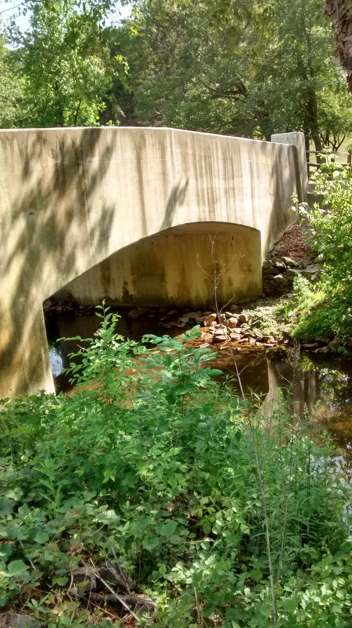 A bridge over Little Darby Creek in Radnor Township